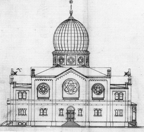 Architect drawing of the synagogue of Marburg (1896*1938).